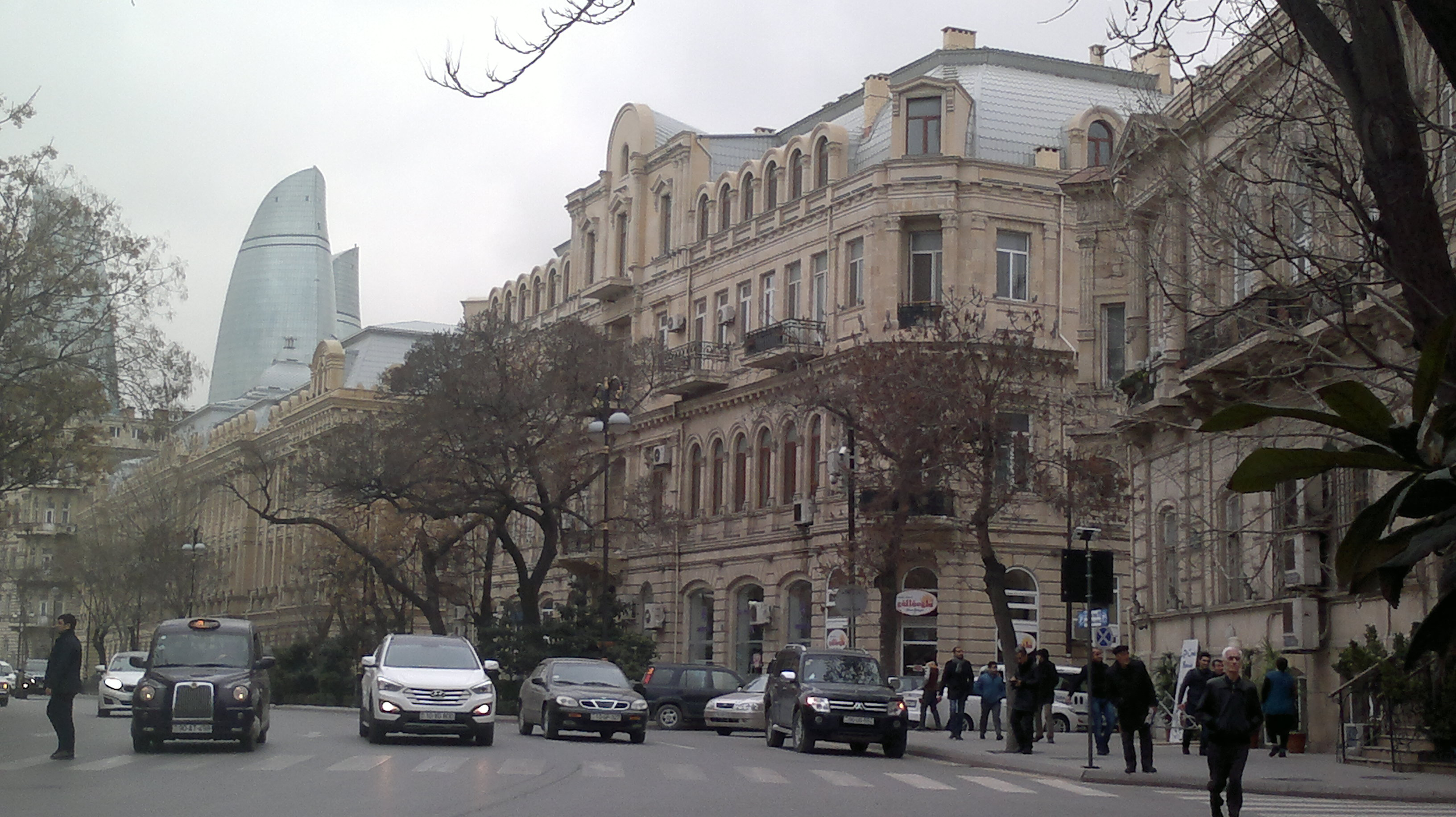 House in Baku where Nariman Narimanov lived. Built by Meshadi Mirza Qafar Ismayilov in 1886.